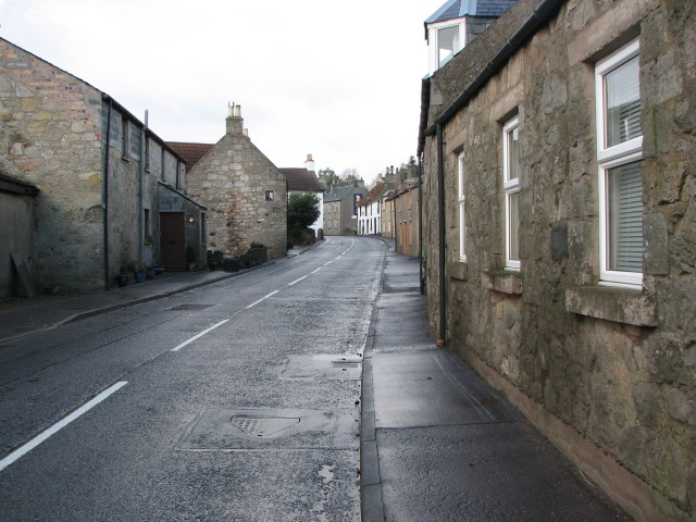 Kinnesswood Main Street. Looking north from opposite the hotel towards the north end of the square.